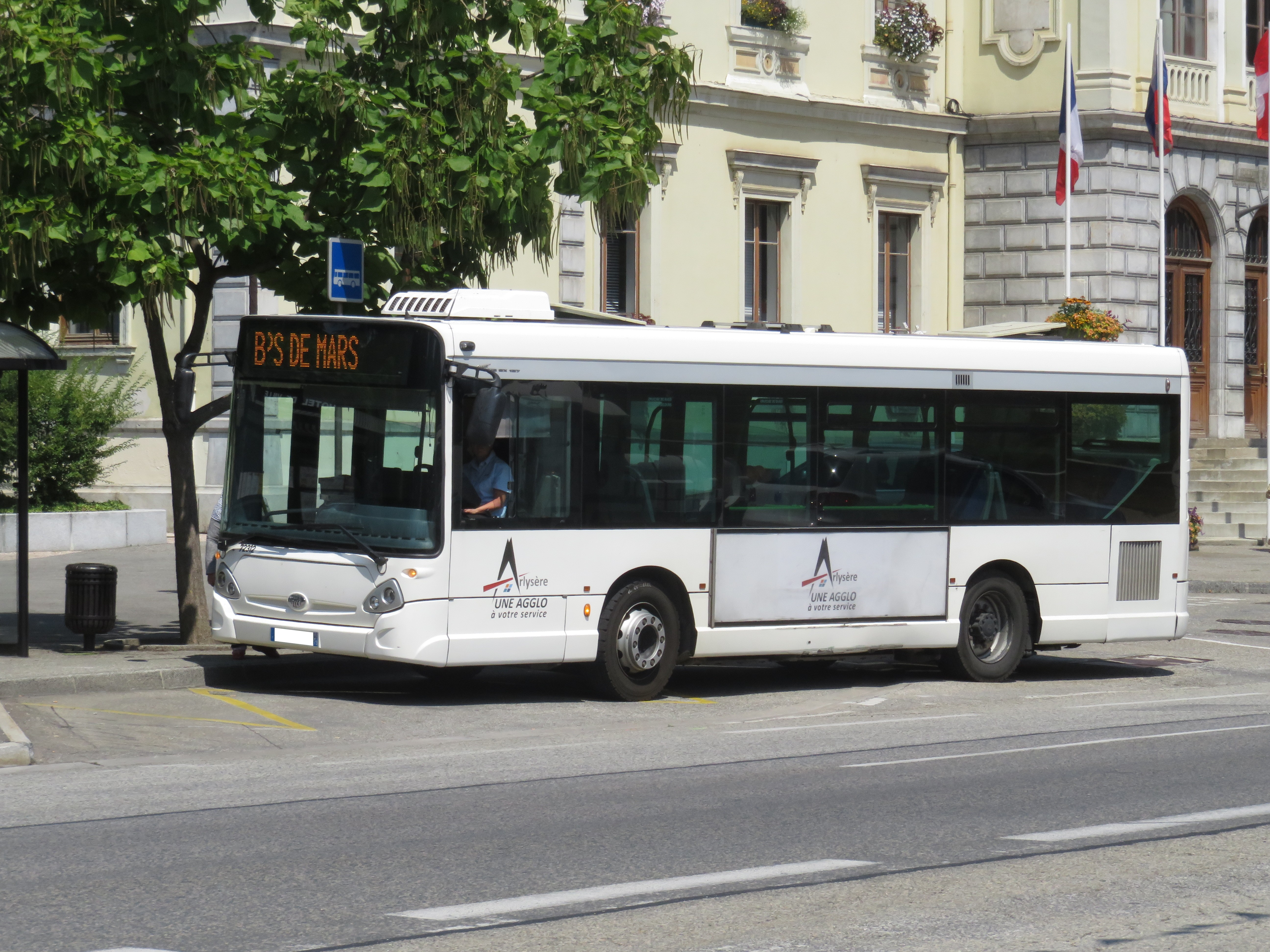 An Heuliez GX 127 (n°72312 of Transavoie), carrying out the line B of the bus network Transports Région Arlysère — Pierre du Roy, Albertville↔Champ de Mars, Albertville — and parked at the call Hôtel de Ville (Albertville, France) on July 17, 2018.